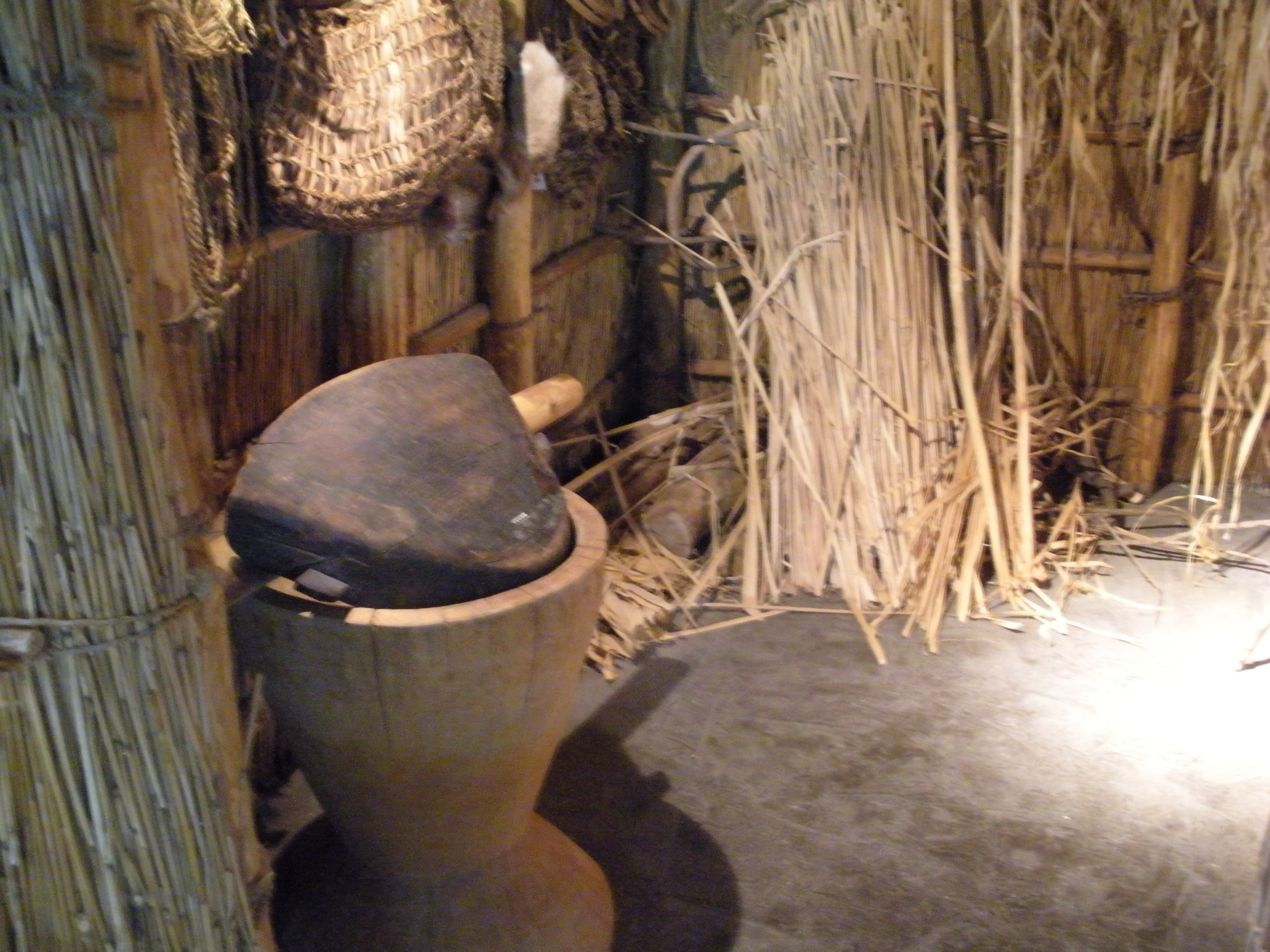 japan Hokkaido Ainu traditional house”cise”